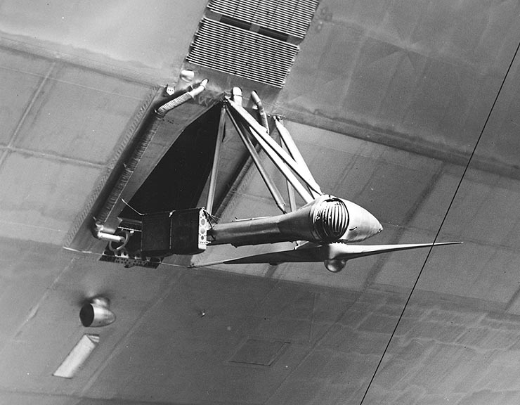 Closeup view of one of the USS Akron's propellers, swiveled to its horizonal position to provide lift for takeoff